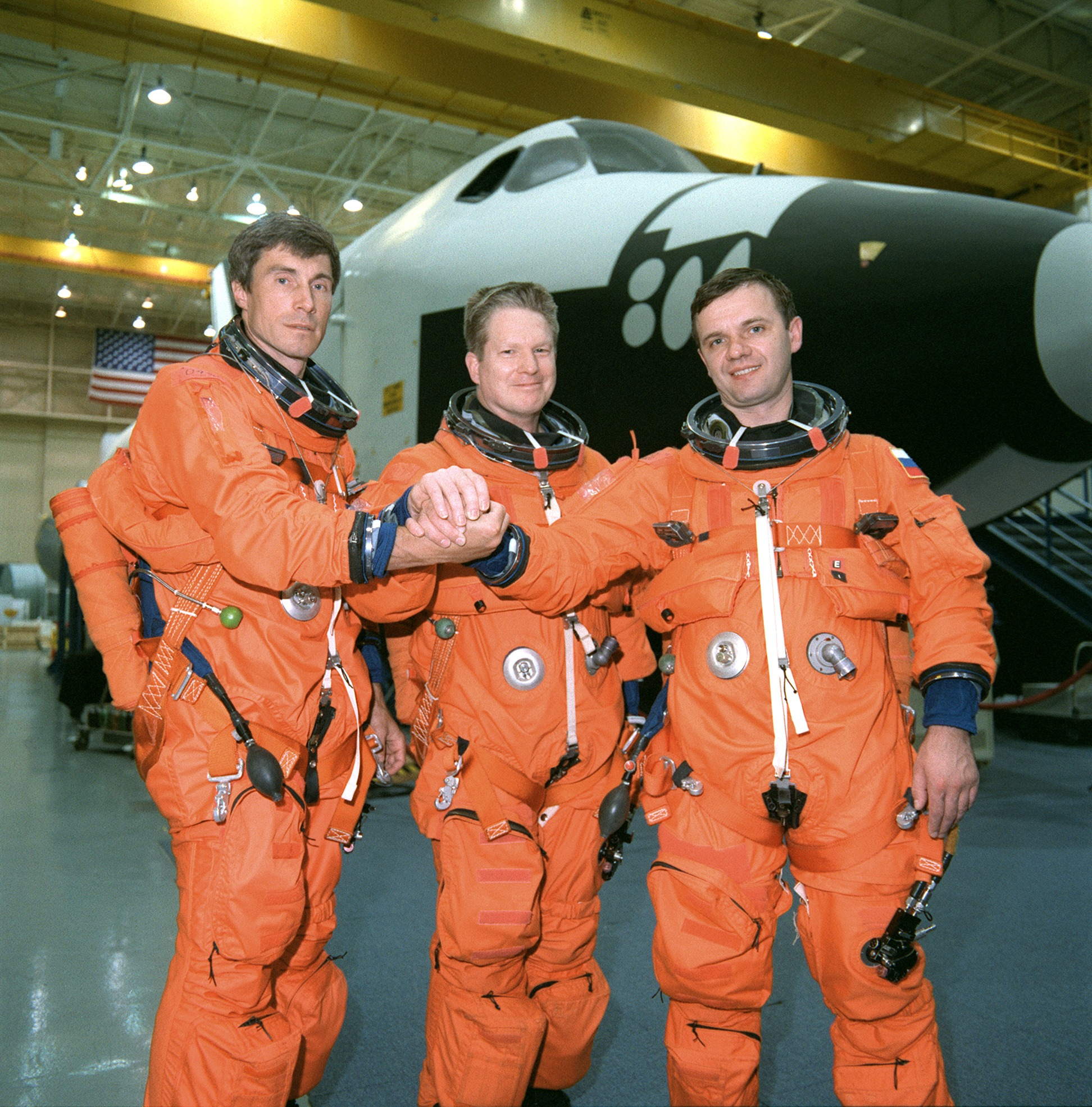 The International Space Station's Expedition 1 crew took a break from training in the systems integration facility at the Johnson Space Center to pose for a crew photo in this picture. From the left are cosmonaut and flight engineer Sergei Krikalev, mission commander William Shepherd and cosmonaut Yuri Gidzenko, Soyuz commander. Behind them is the full fuselage trainer, one of the full-scale mock-ups used to prepare the crew for certain phases and contingencies of their shuttle return flight. Expedition 1 lifted off to become the first crew to live aboard the station from the Baikonur Cosmodrome.